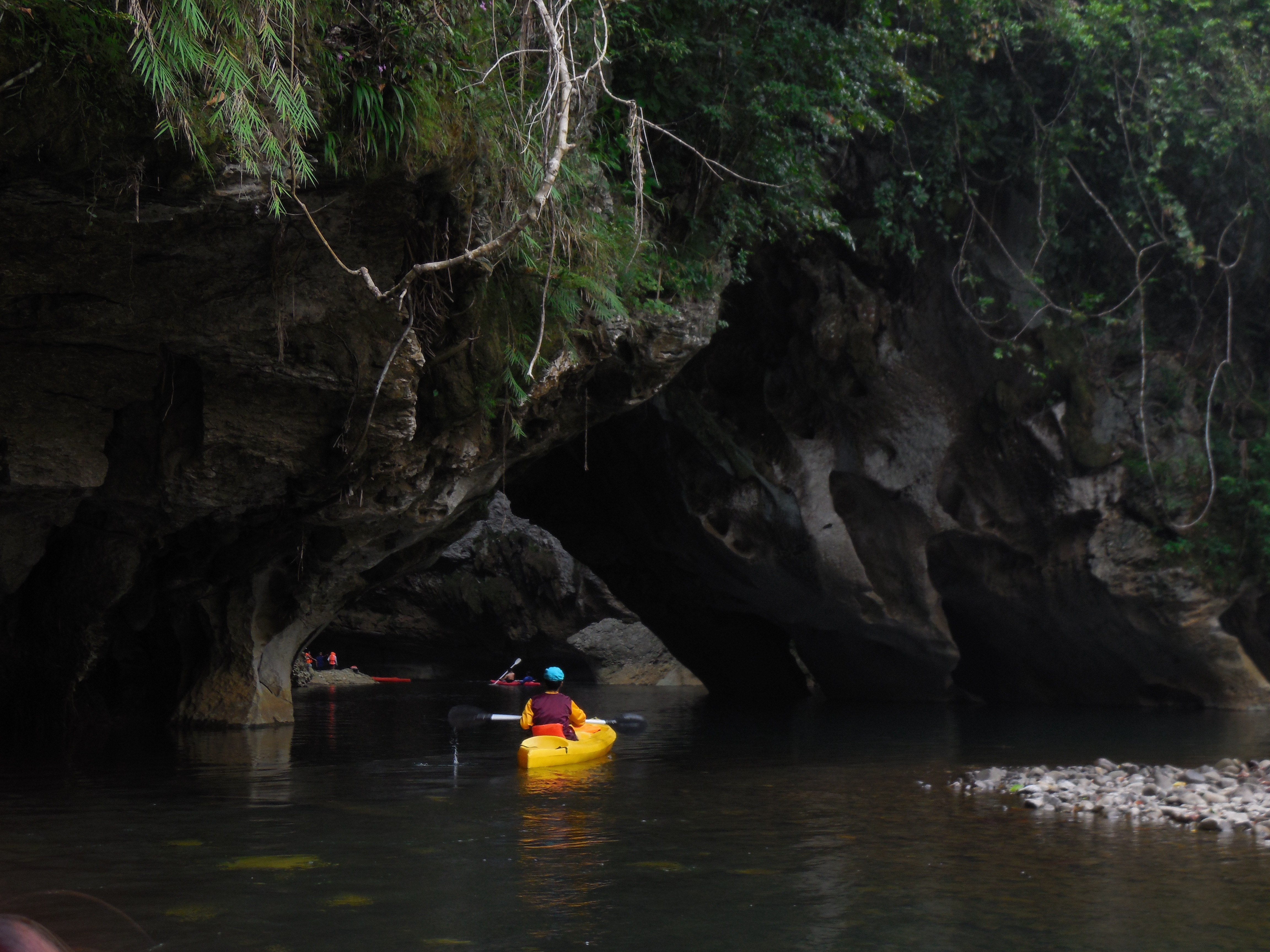 Photo showing tourists kayaking through Sohoton Natural Bridge via Cadacan River in Sohoton Natural Bridge National Park in Basey, Samar.